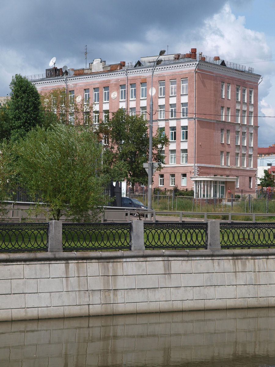 School on Lefortovskaya Embankment, inside Bauman Moscow State Technical University campus (from across the Yauza River). This is a standard 1950s school building, built in dozens.